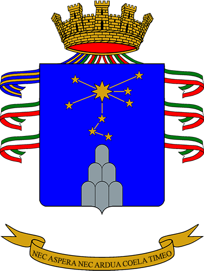 Coat of Arms of the 4° Army Aviation Regiment “Altair”; Italian Army.